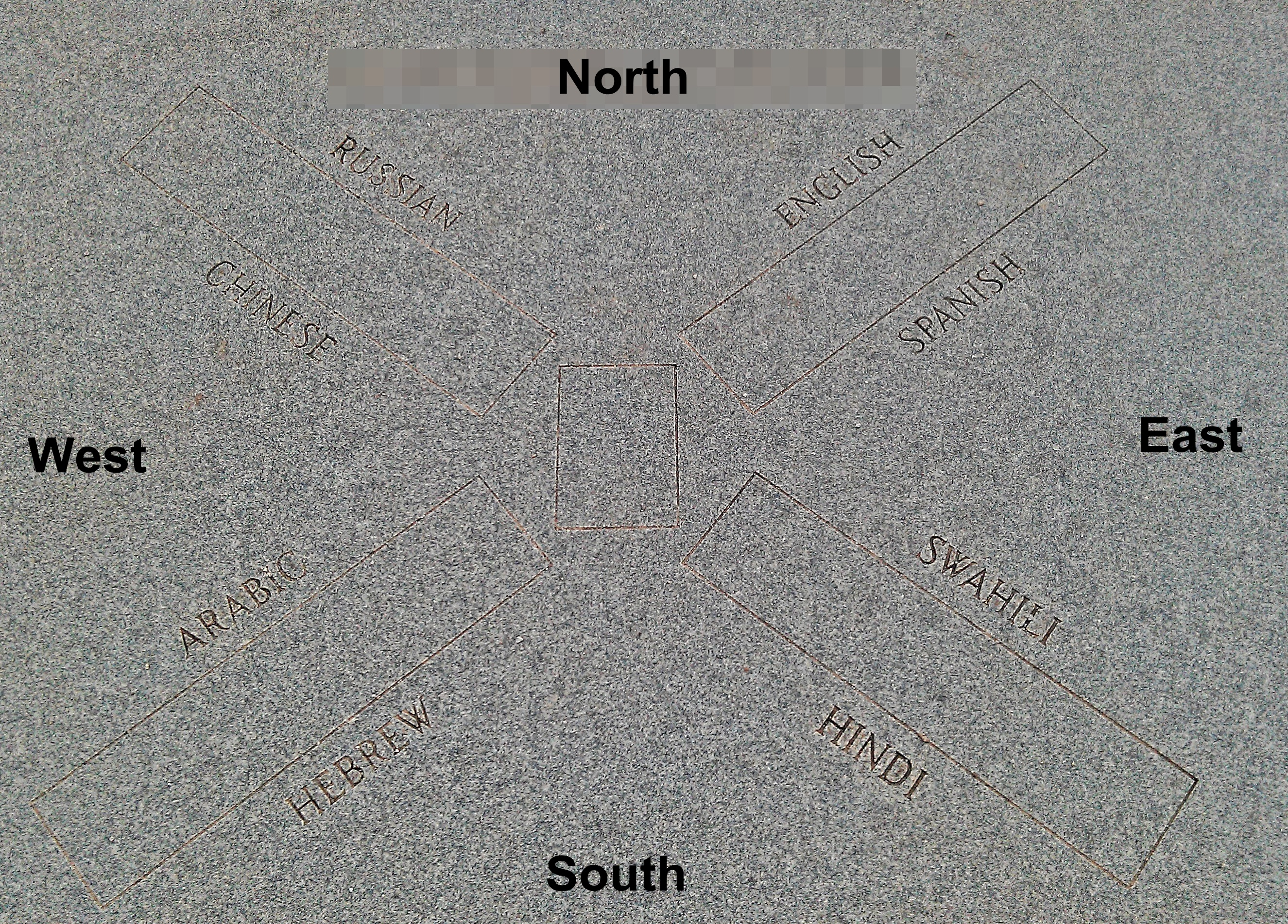 Closeup photo of the detail stone, specifying each megalith language and the cardinal directions they face.